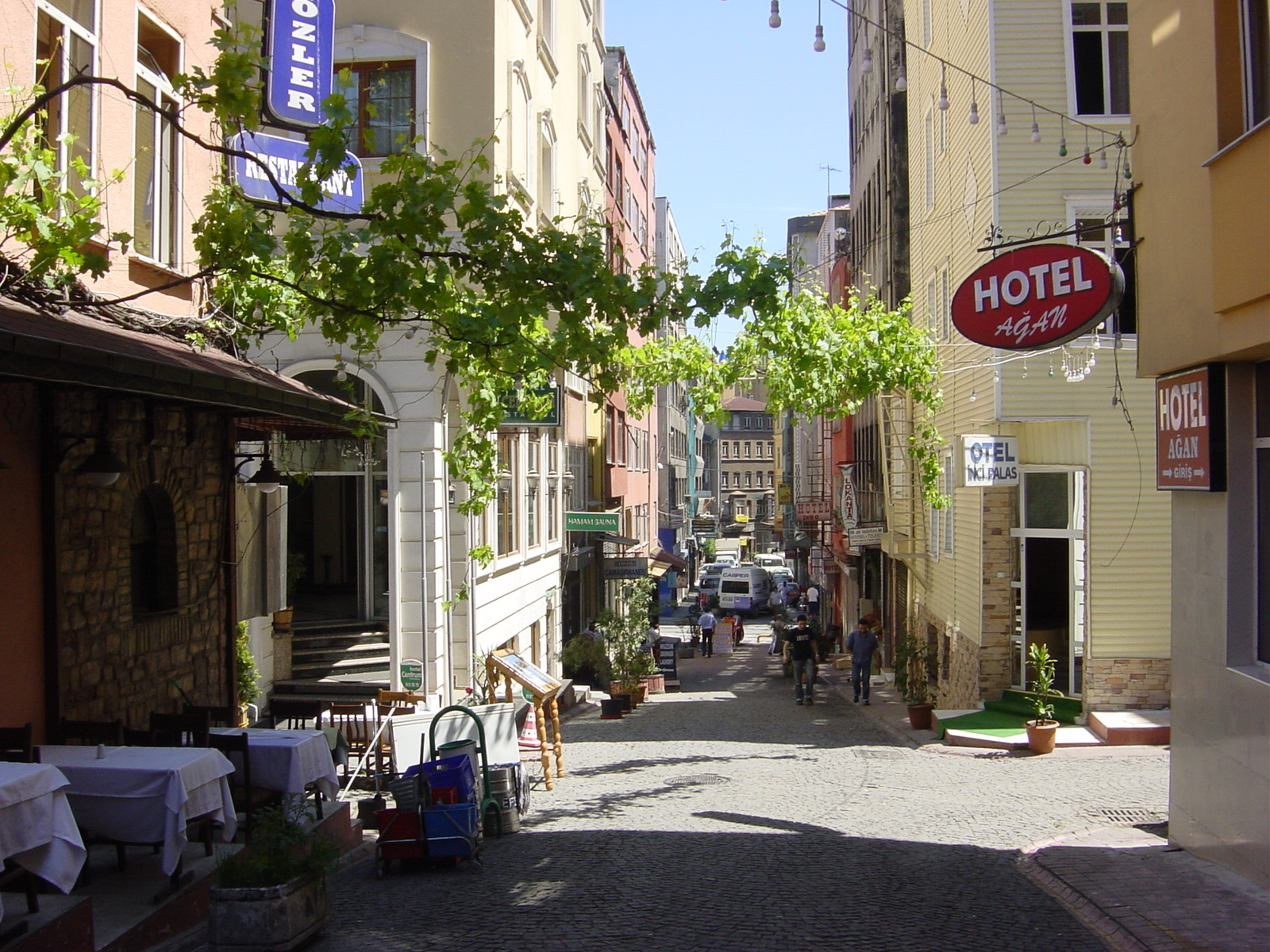 A grape vine growing on a cable-trellis pergola above a historic village road in Üsküdar, Istanbul.